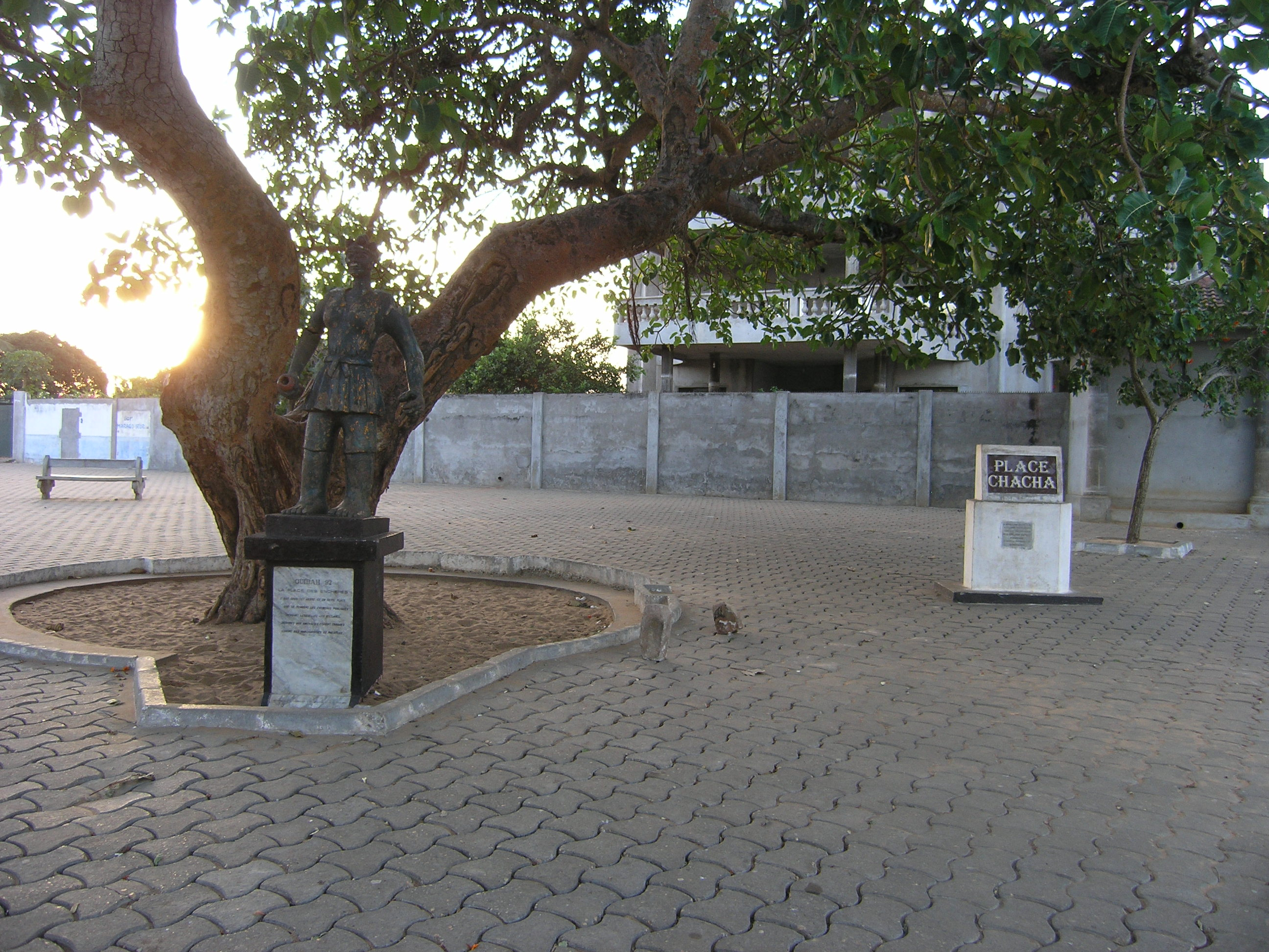 Place Cha Cha in Ouidah, Benin